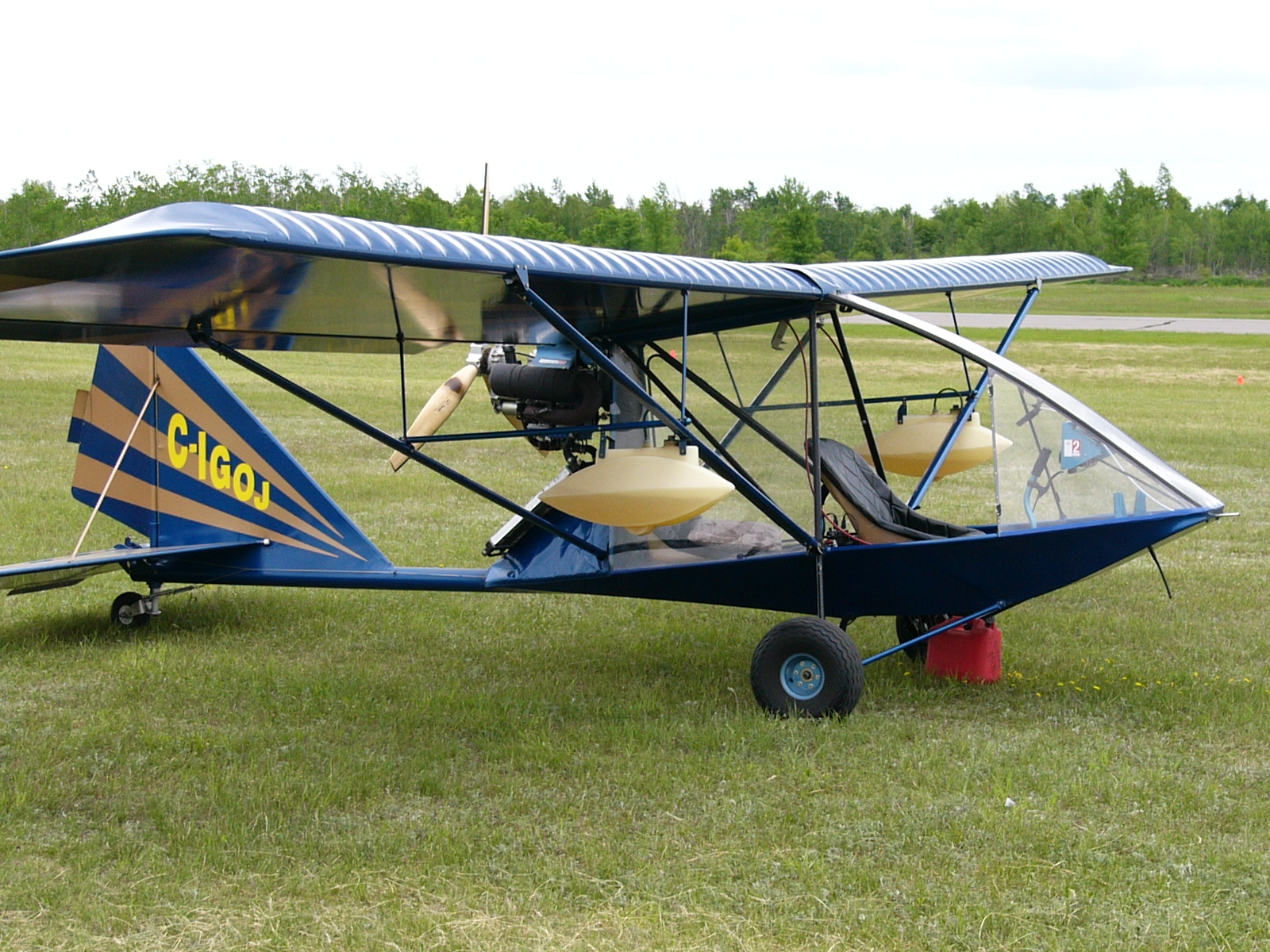 An ASAP Chinook Plus 2 at the Smith falls, Ontario, Canada Fly-in, 2004